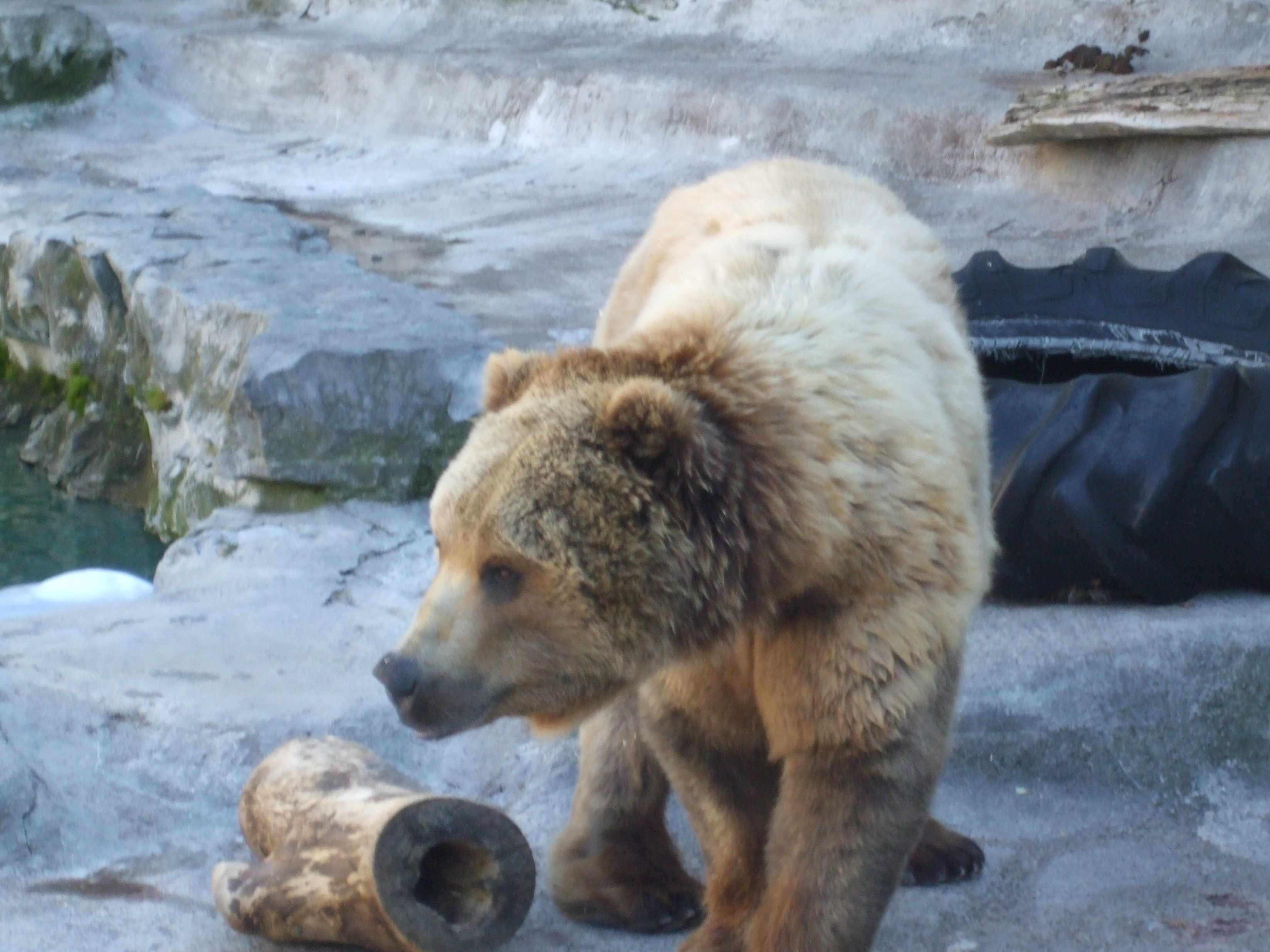 Ursus arctos horribilis, Grizzly Bear at the Buffalo Zoo, in Buffalo New York.